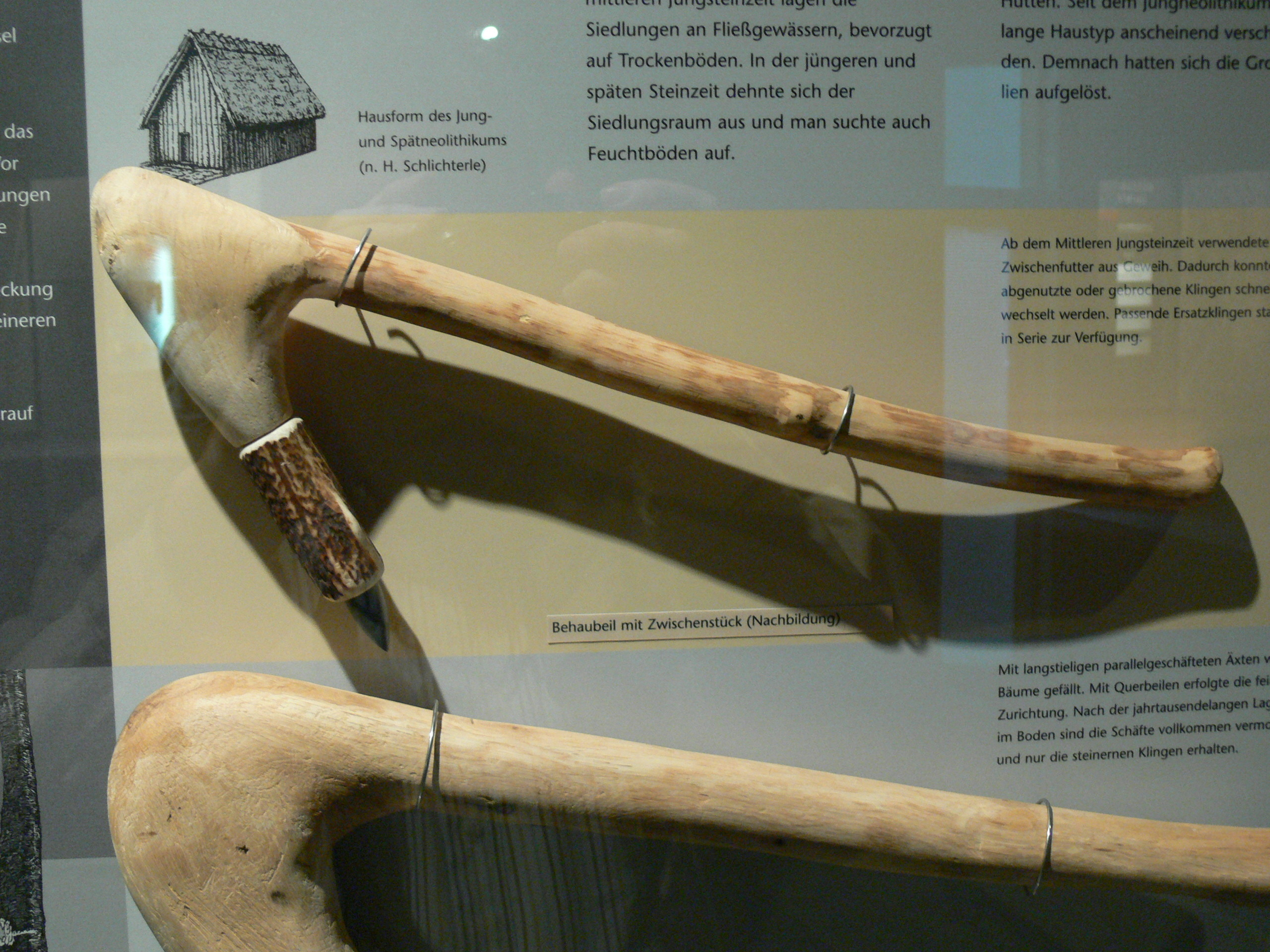 Museum Quintana. Neolithic axe ( reconstruction ).